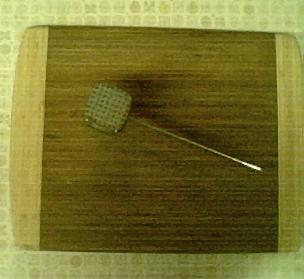 Self-made photo of a meat tenderizer.